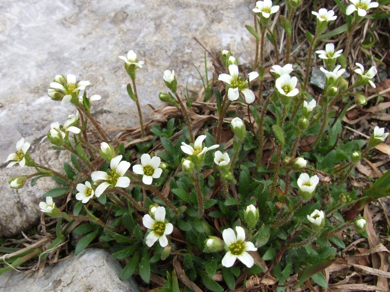 Saxifraga androsaceae